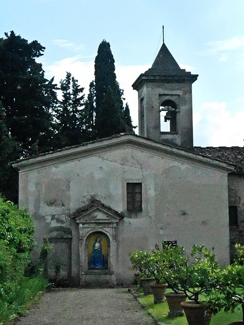 view from the limonaia